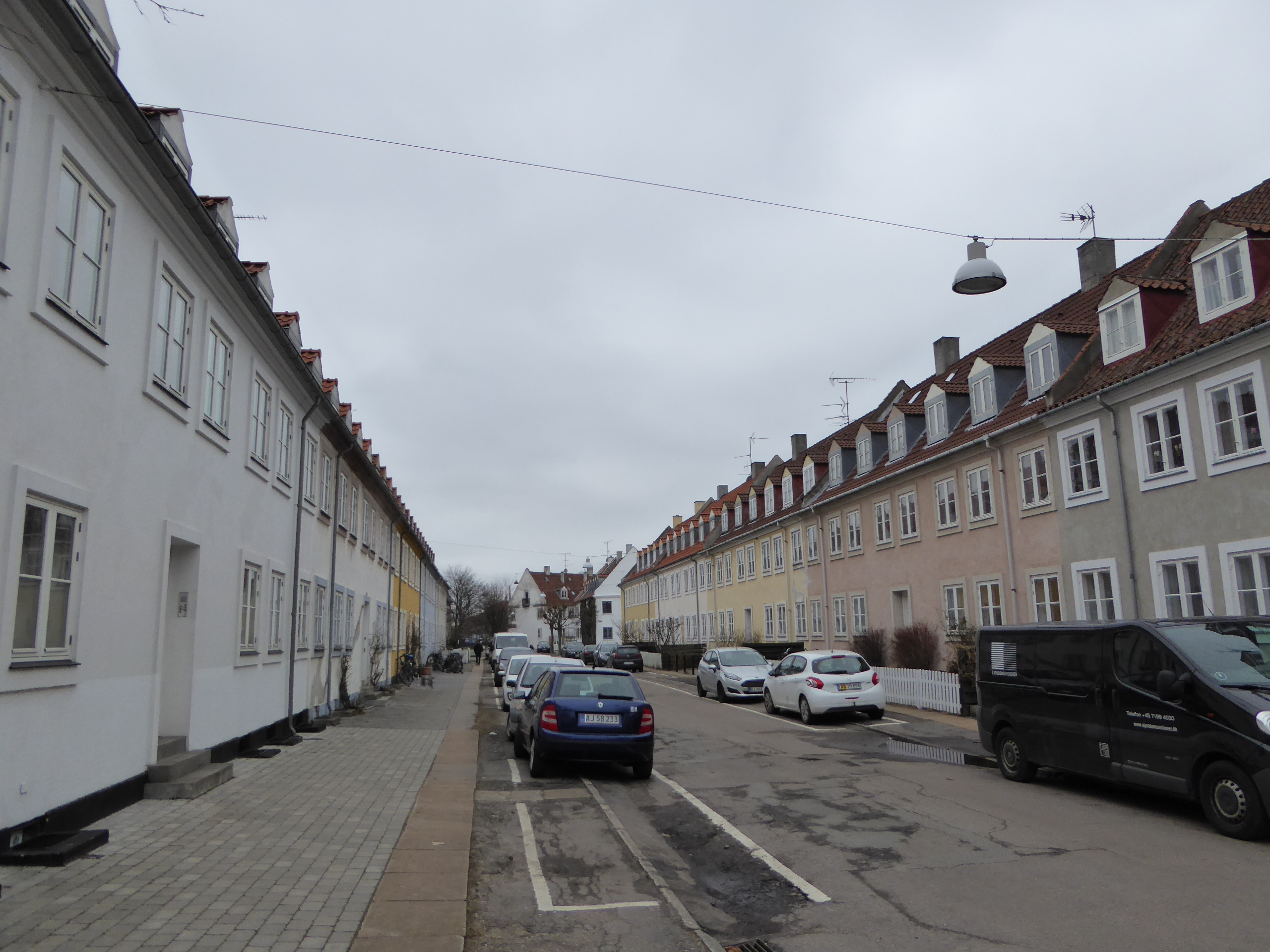 The street Hildursgade in the neighborhood Vibekevang in Østerbro in Copenhagen.